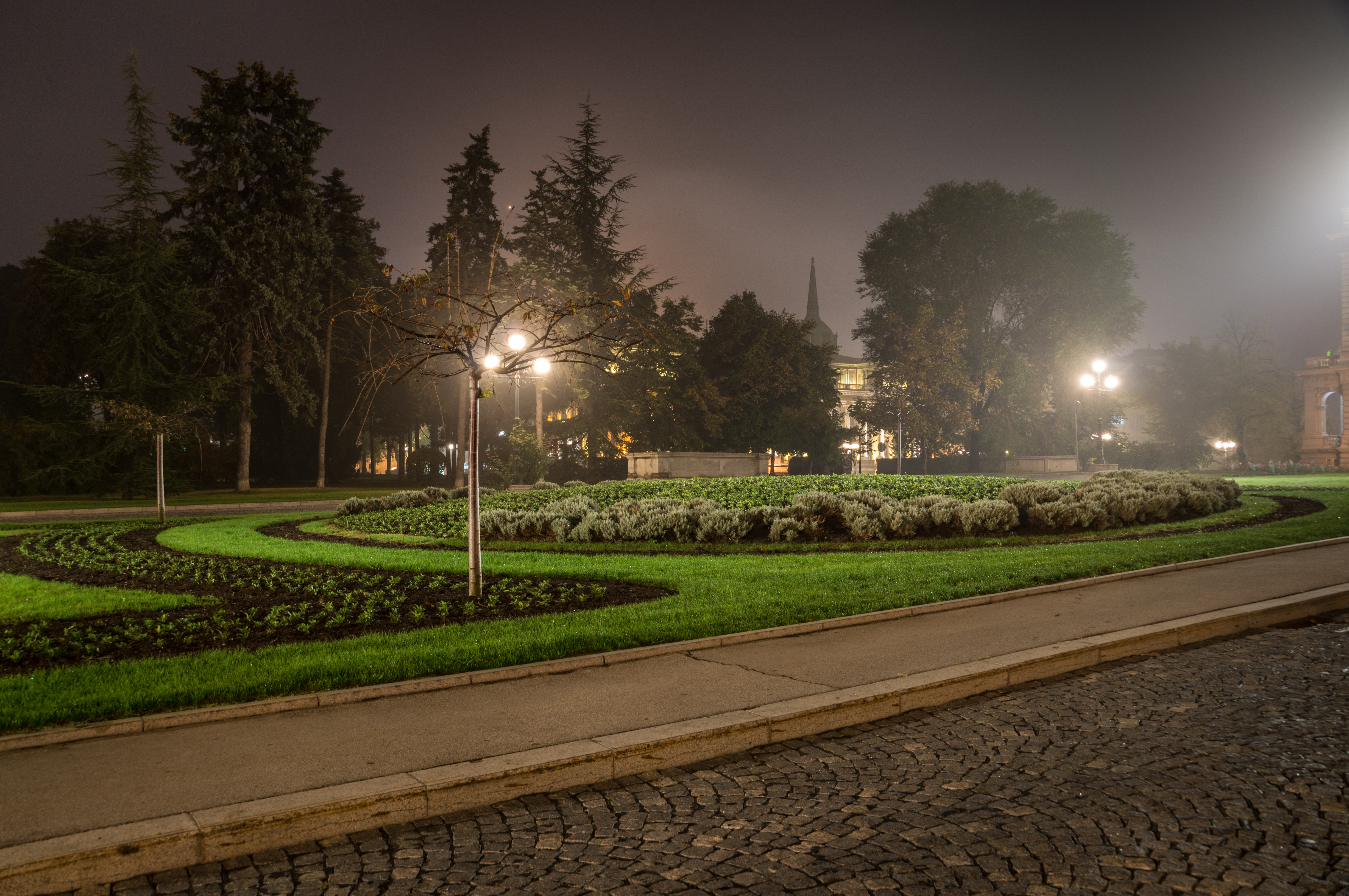 Garden in front of Old Palace (Stari Dvor) in Belgrade, Serbia.